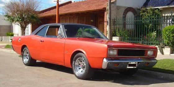 Argentinean Dodge GTX Coupe